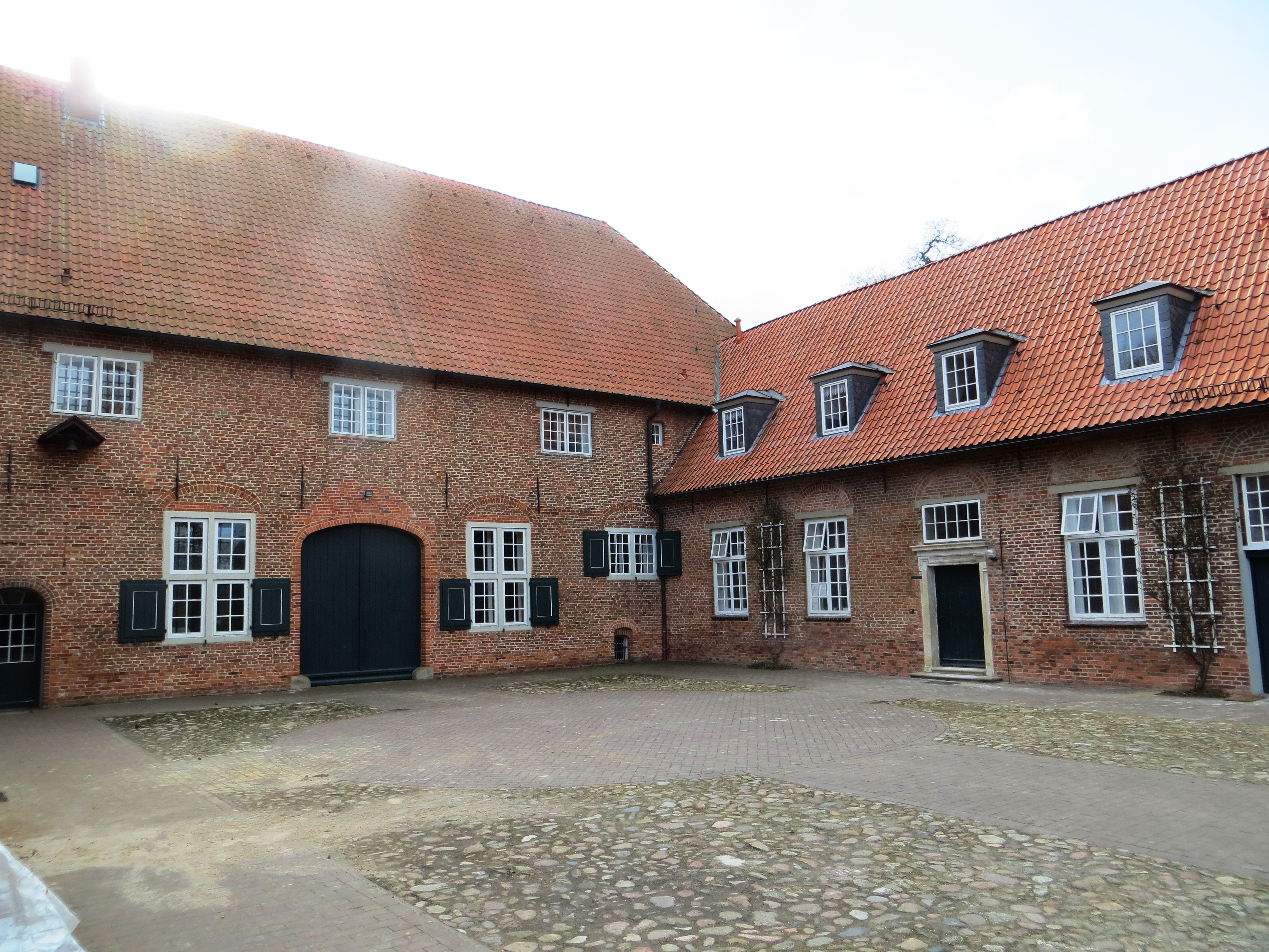 Orphanage in Varel